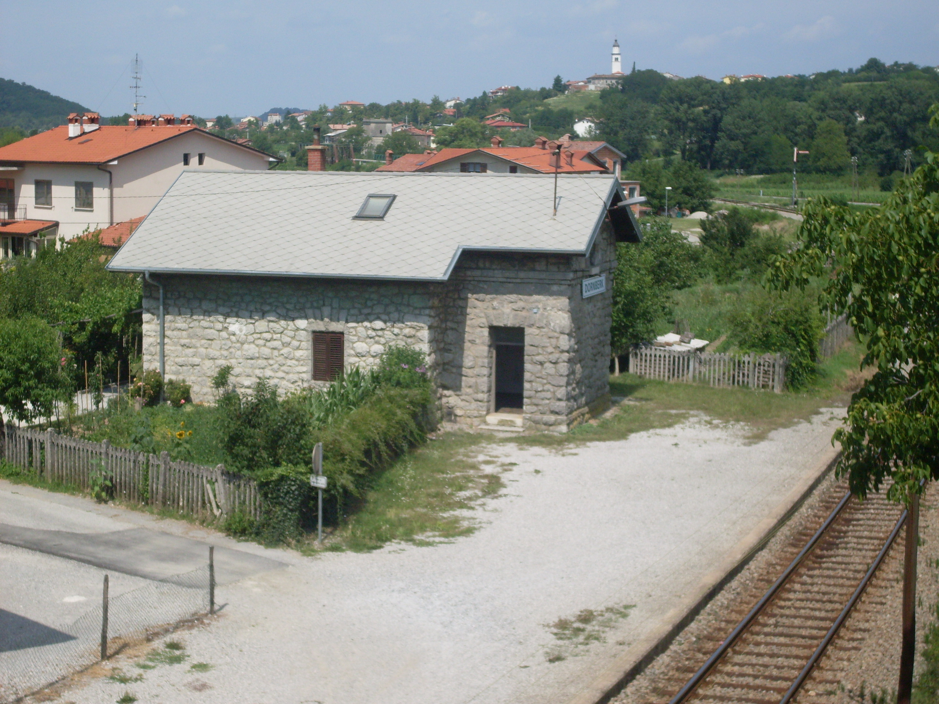 Railway halt Dornberk (on the Bohinj railway between Nova Gorica and Sežana), actually located in Draga. Should not be confused with the nearby "Dornberk vas" railway halt on the Prvačina - Ajdovščina railway. In the background, St. Daniel's Parish Church in Dornberk.